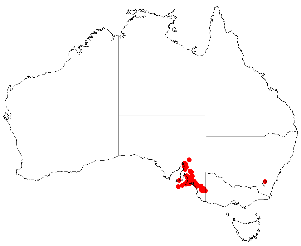 Hakea carinata Occurrence data downloaded from Australasian Virtual Herbarium on 22 November 2018 using